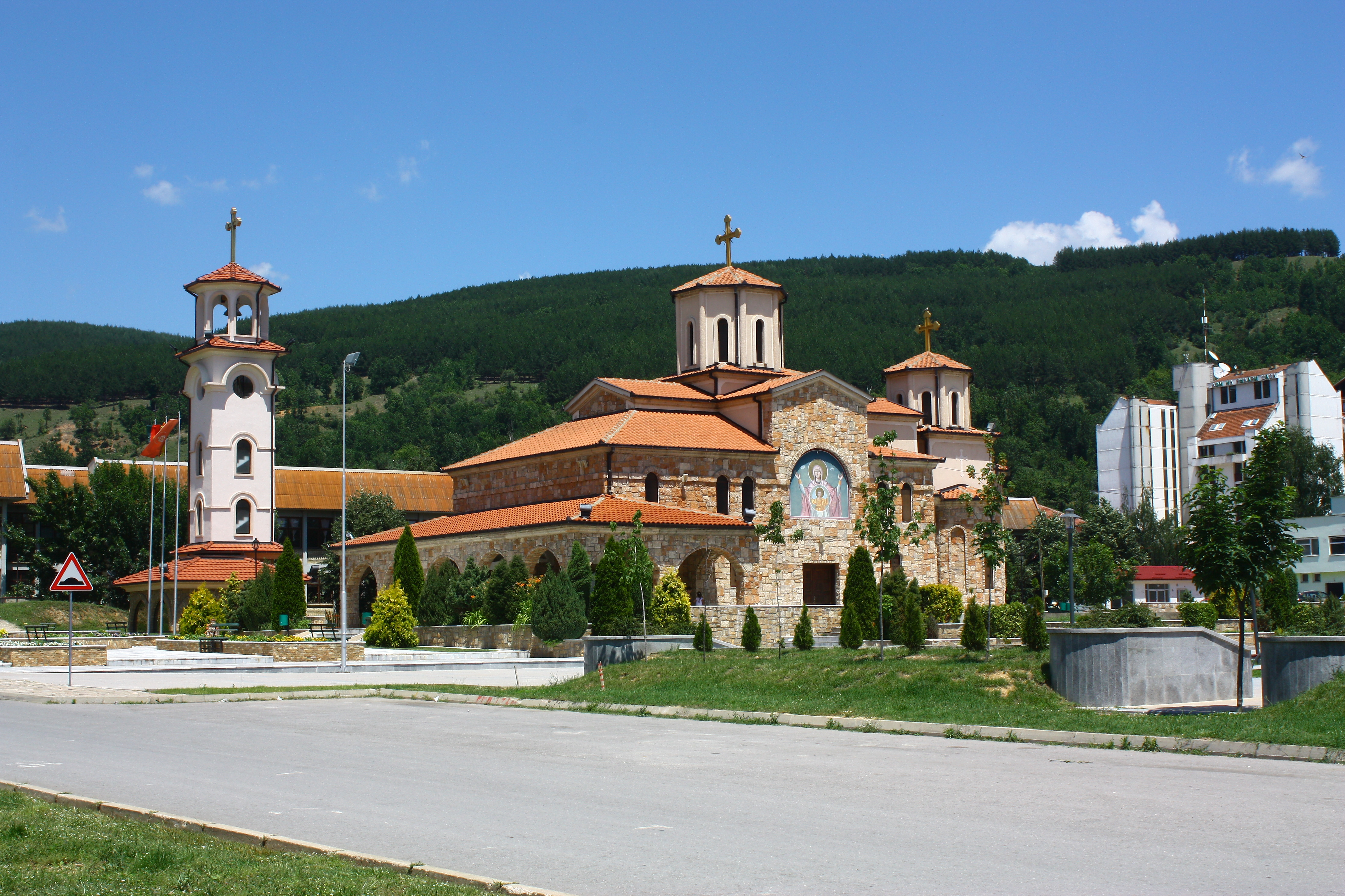 Dormition of the Theotokos Church in Makedonska Kamenica, Macedonia